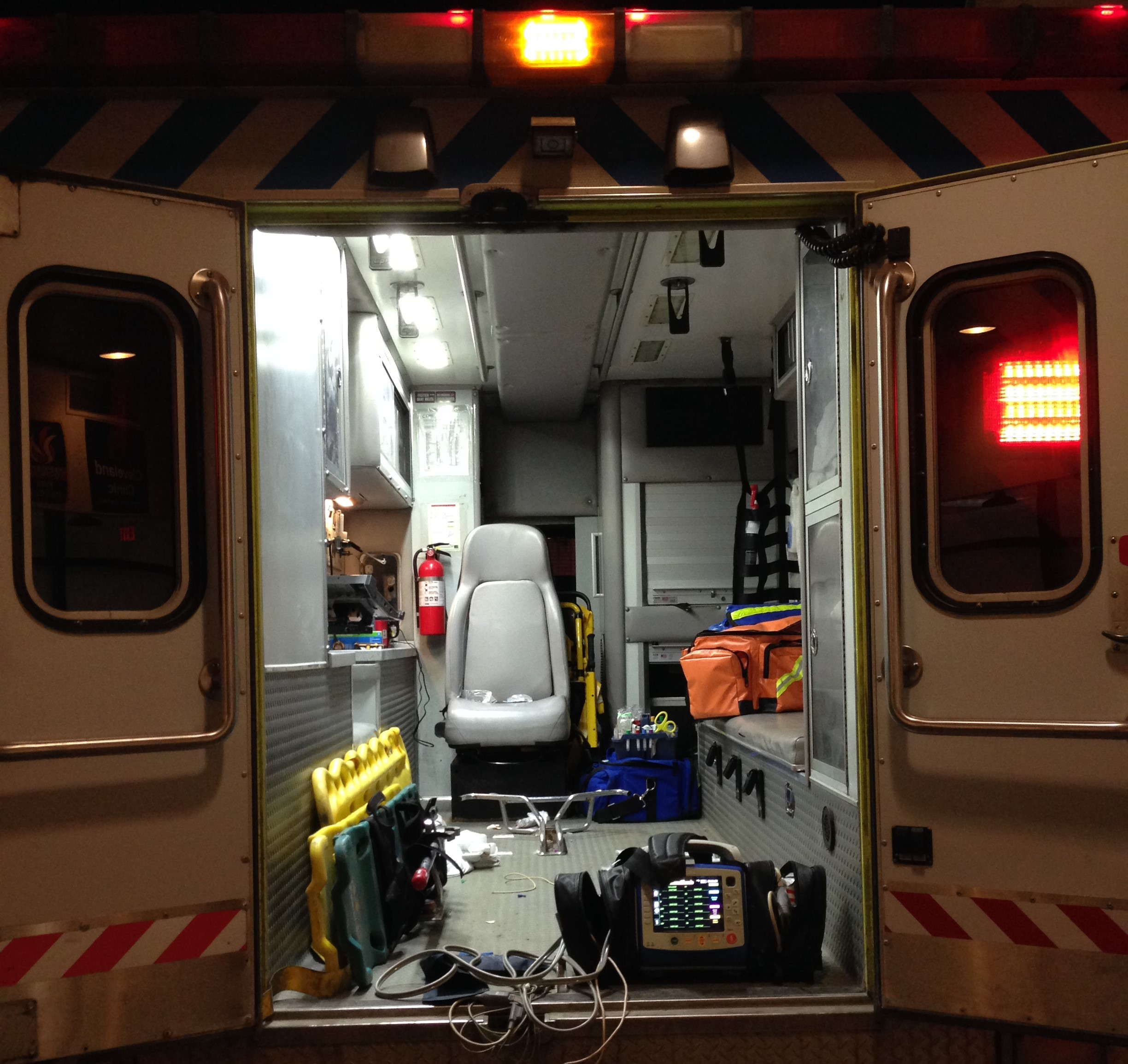 interior of an ambulance